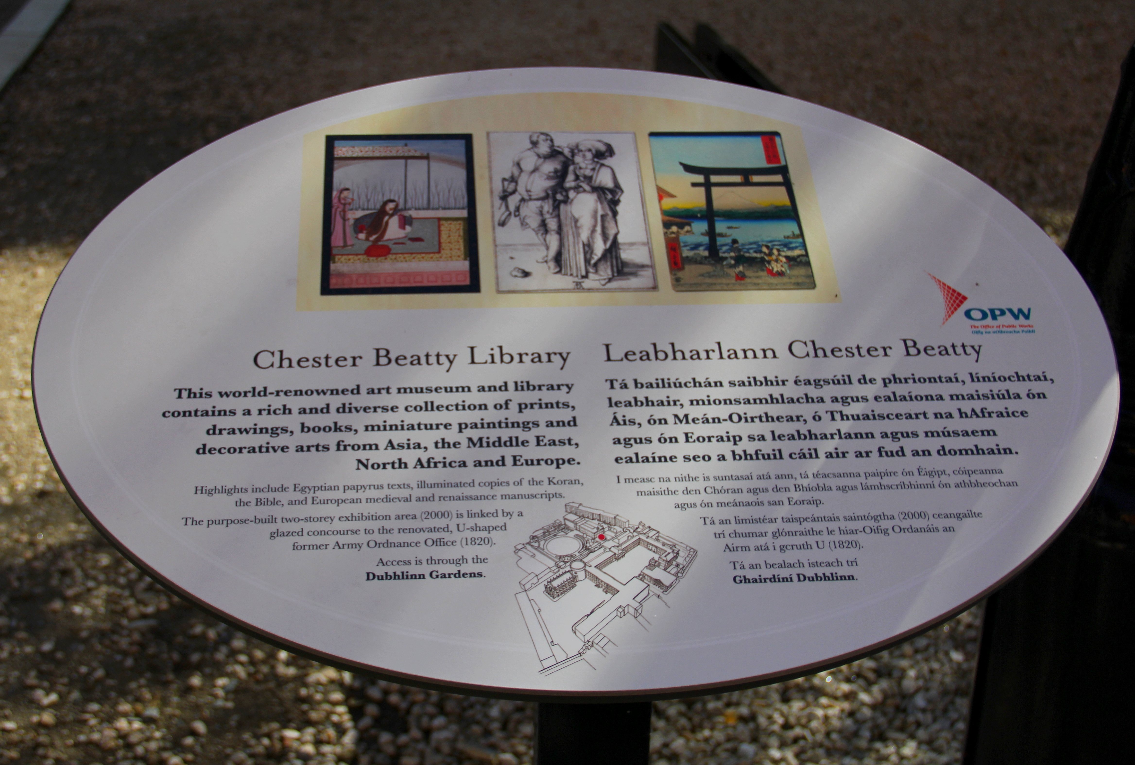 Information plaque in front of the Chester Beatty Library in Dublin, Ireland.